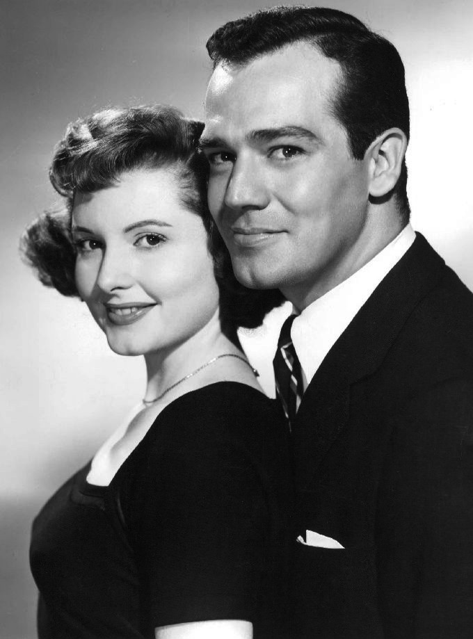 Photo of Patricia Barry as Laurie James and Val Dufour as Zach James from the early television daytime drama First Love.